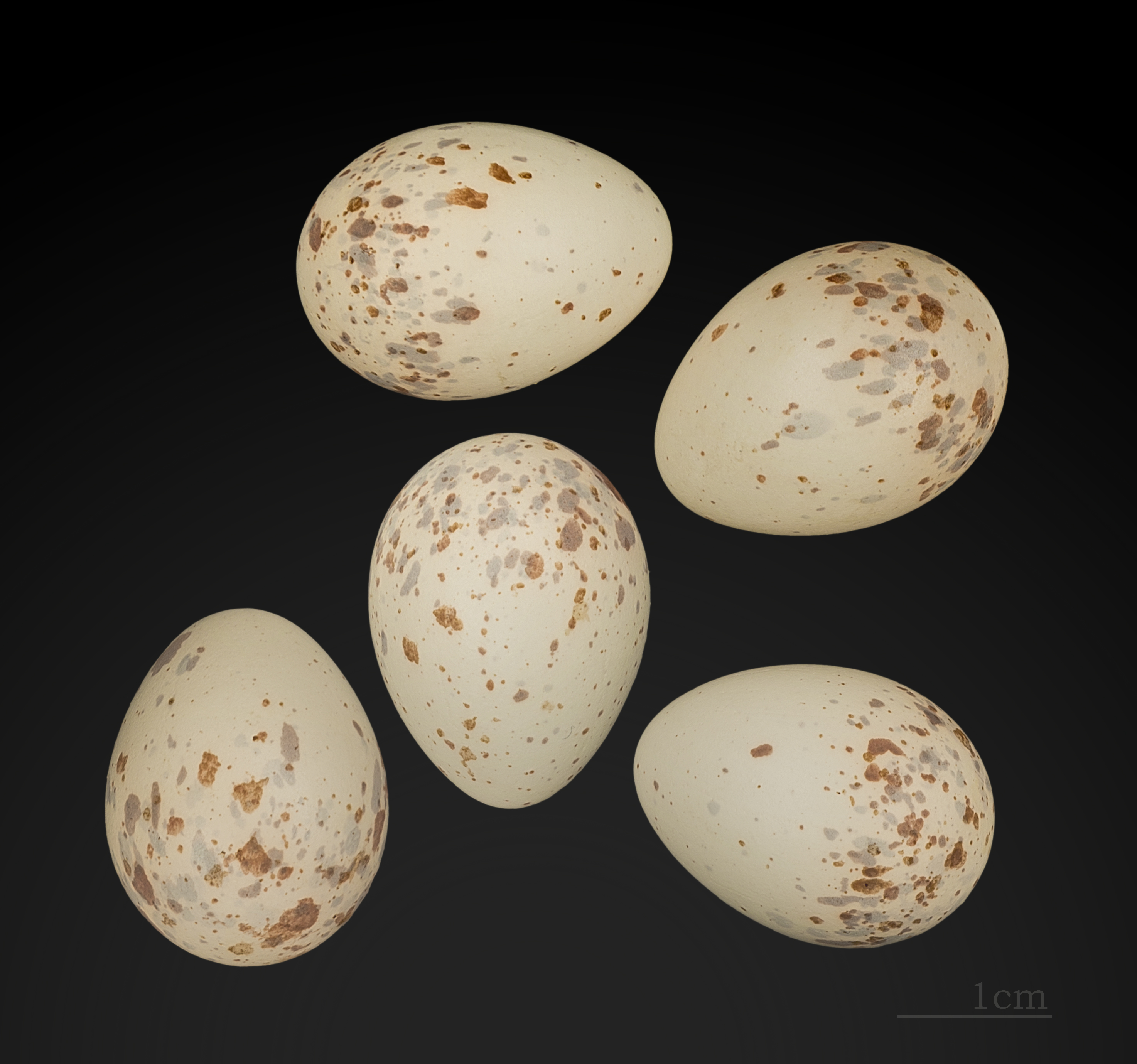 Egg of Woodchat Shrike. Collection of Jacques Perrin de Brichambaut.